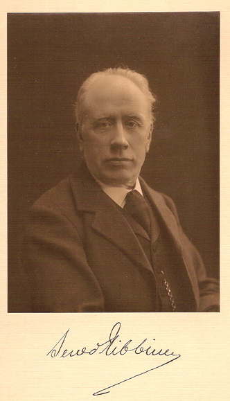 Seved Ribbing (1845-1921), Swedish professor of pediatrics at Lund University.